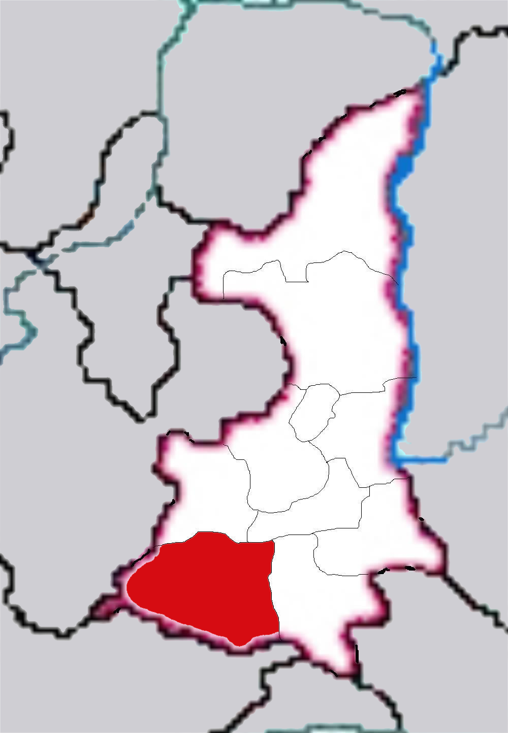 Maps of Shaanxi Province of China